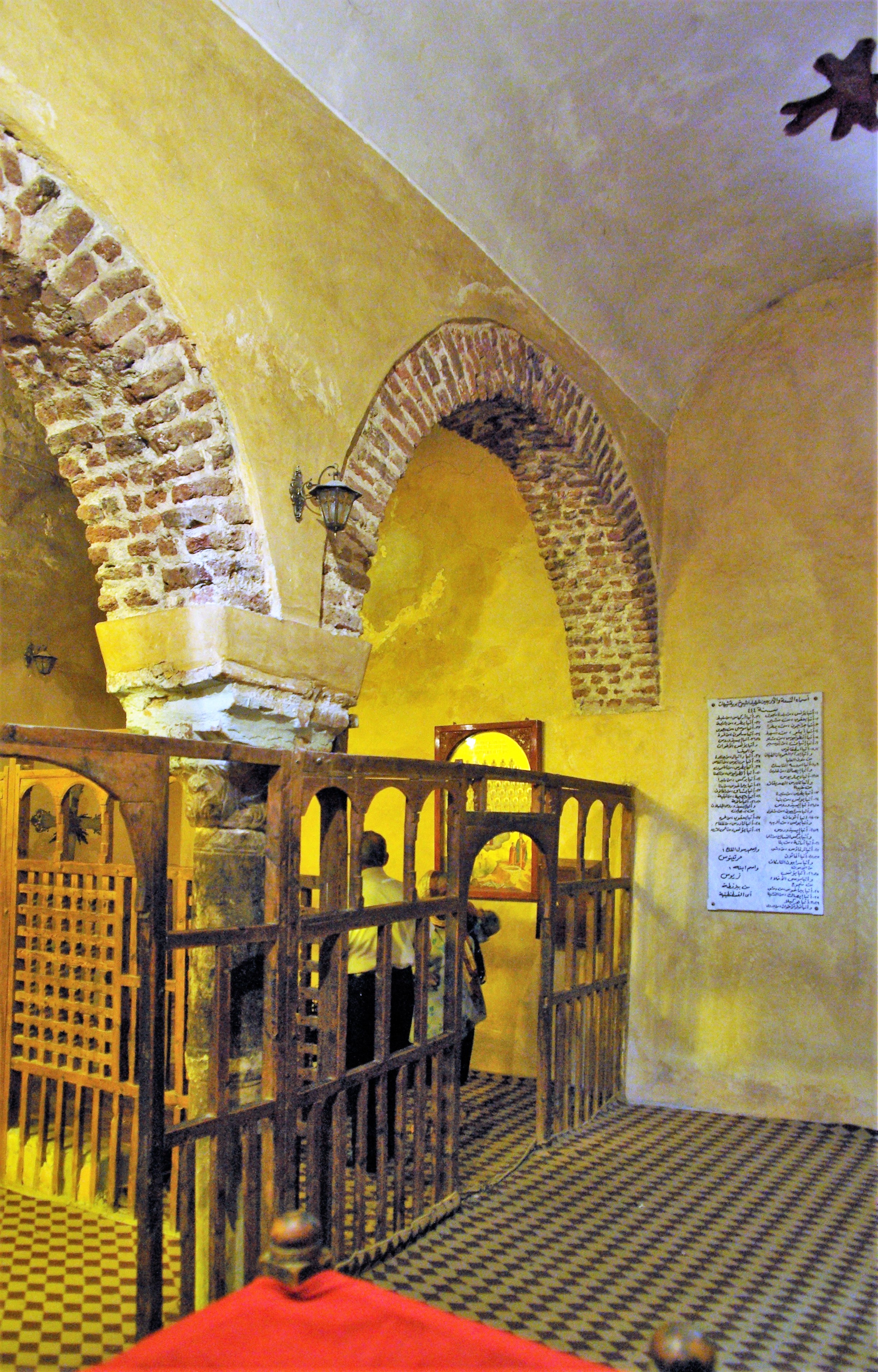 Monastery of Saint Macarius the Great, Wadi Natrun